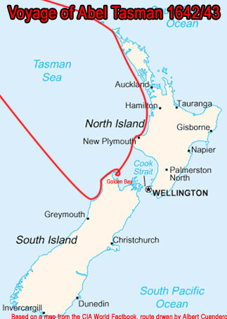 Sailing route drawn in red by Albert Cuandero following journal entries by Tasman (not verified) - public domain. Based on the map of New Zealand from "CIA World Factbook" - public domain.